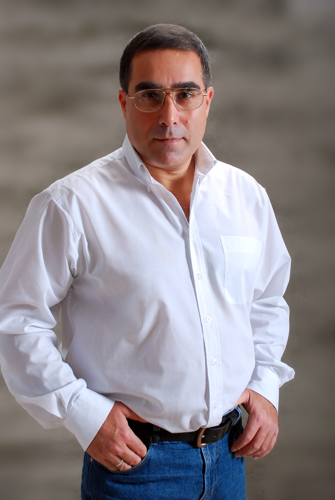 Alexios Schandermani